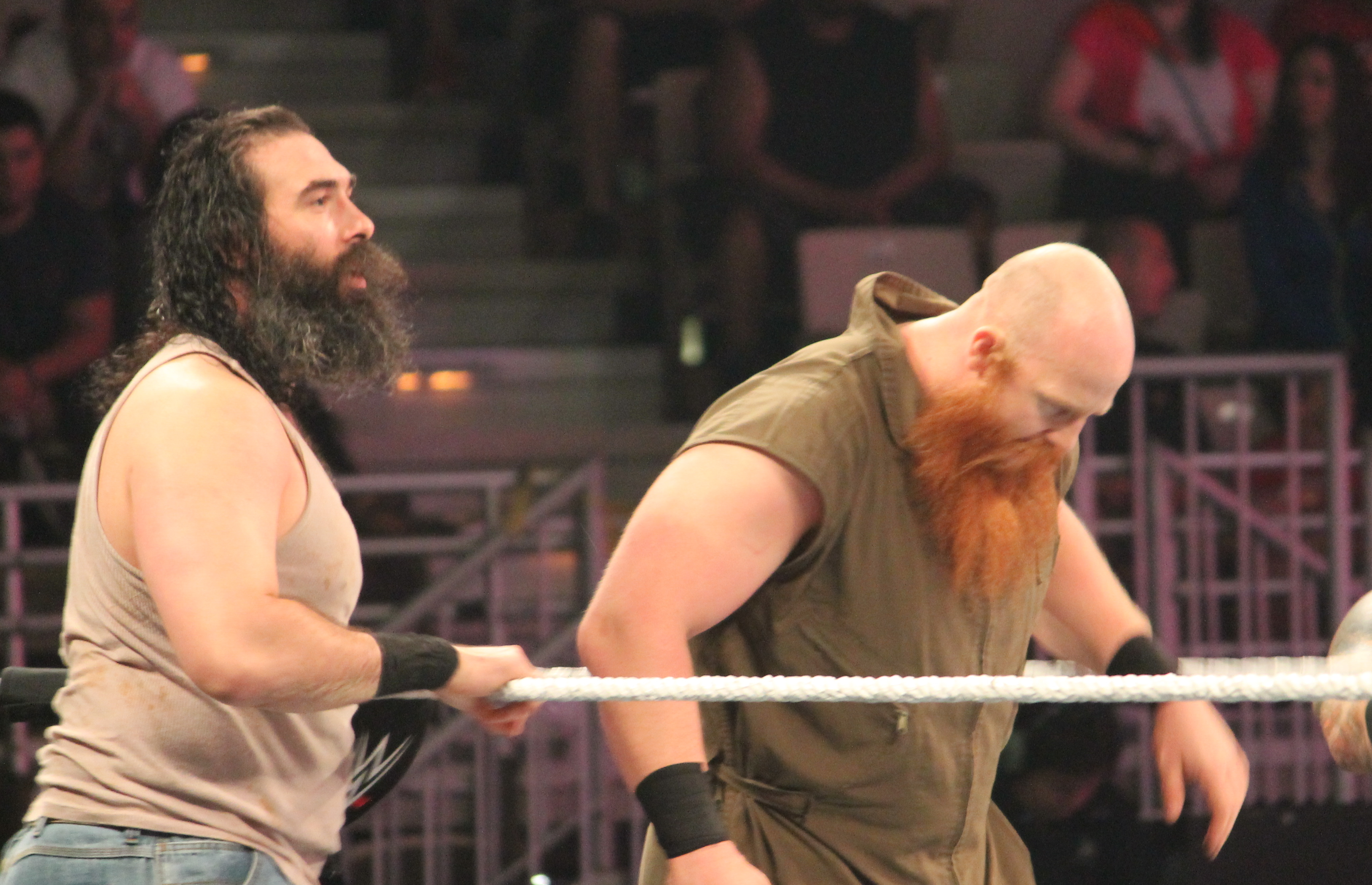 Luke Harper (left) and Erick Rowan (right) in a tag team match on September 15, 2014